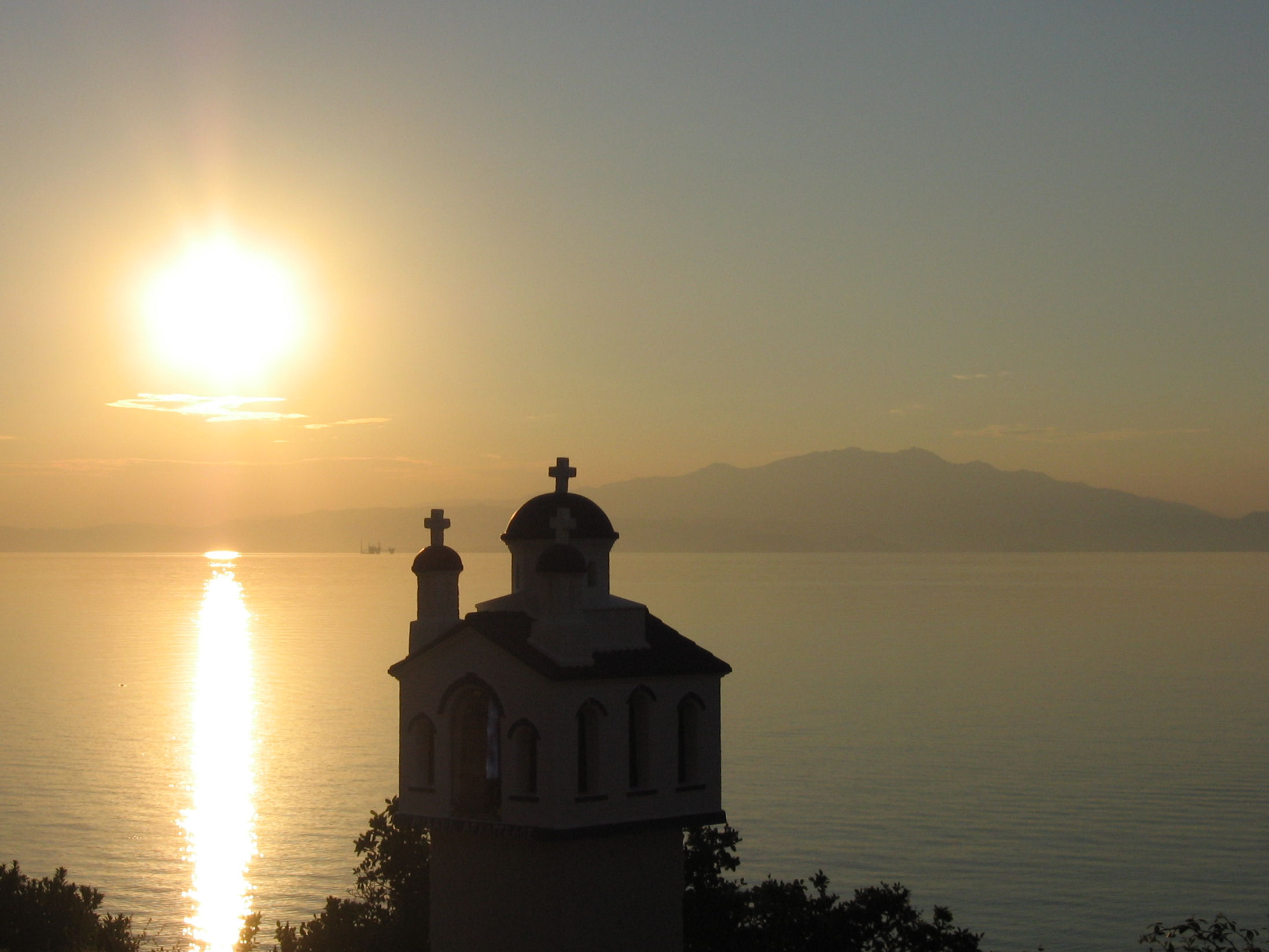 Pangaion Mountain from Skala Rachoniou / Thasos